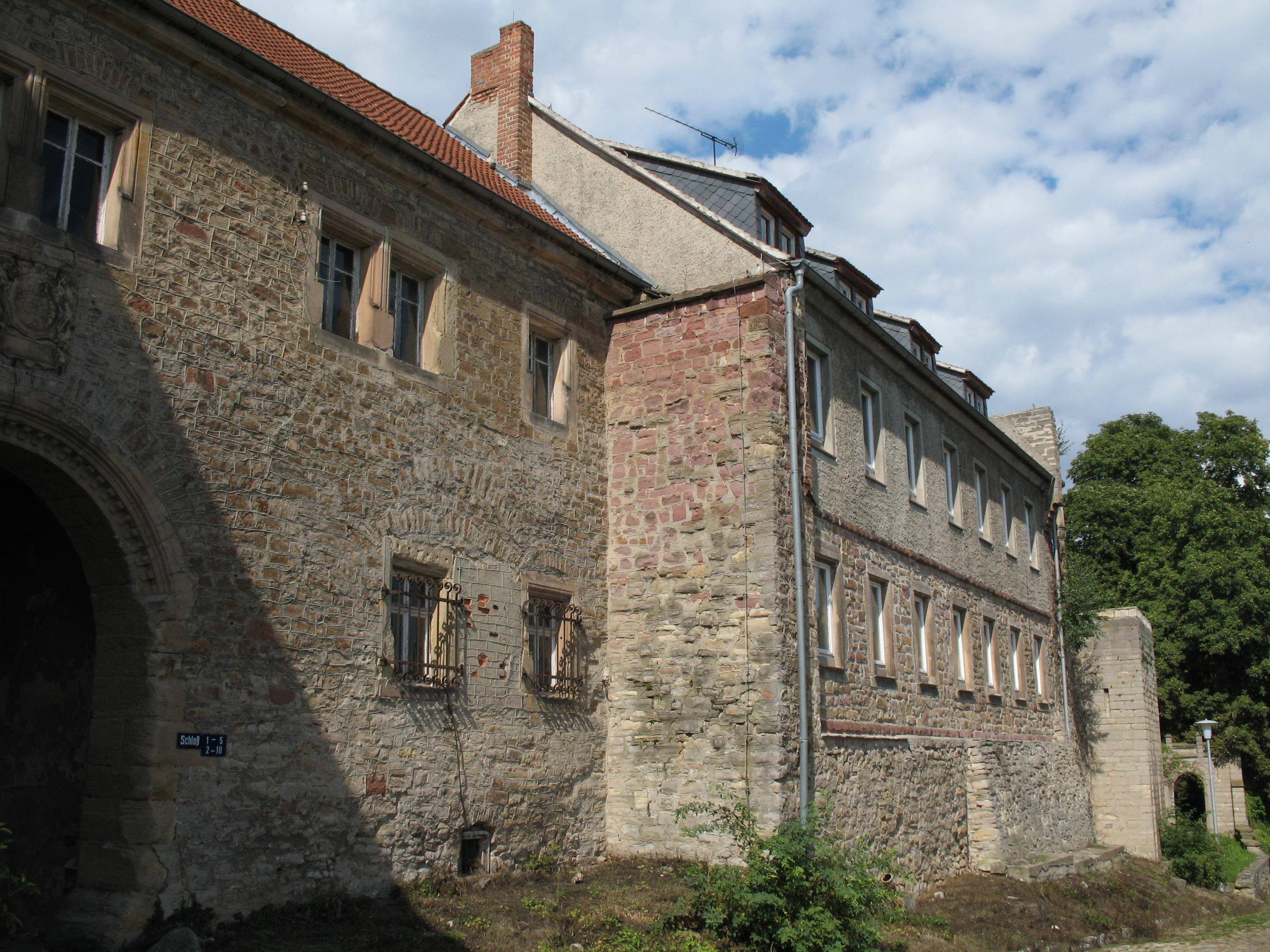 Castle in Allstedt-Beyernaumburg in Saxony-Anhalt, Germany